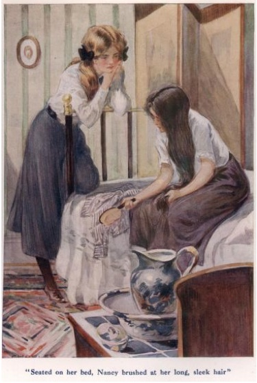 Artwork from "Etheldreda the Ready" (1910) by Mrs George de Horne Vaizey